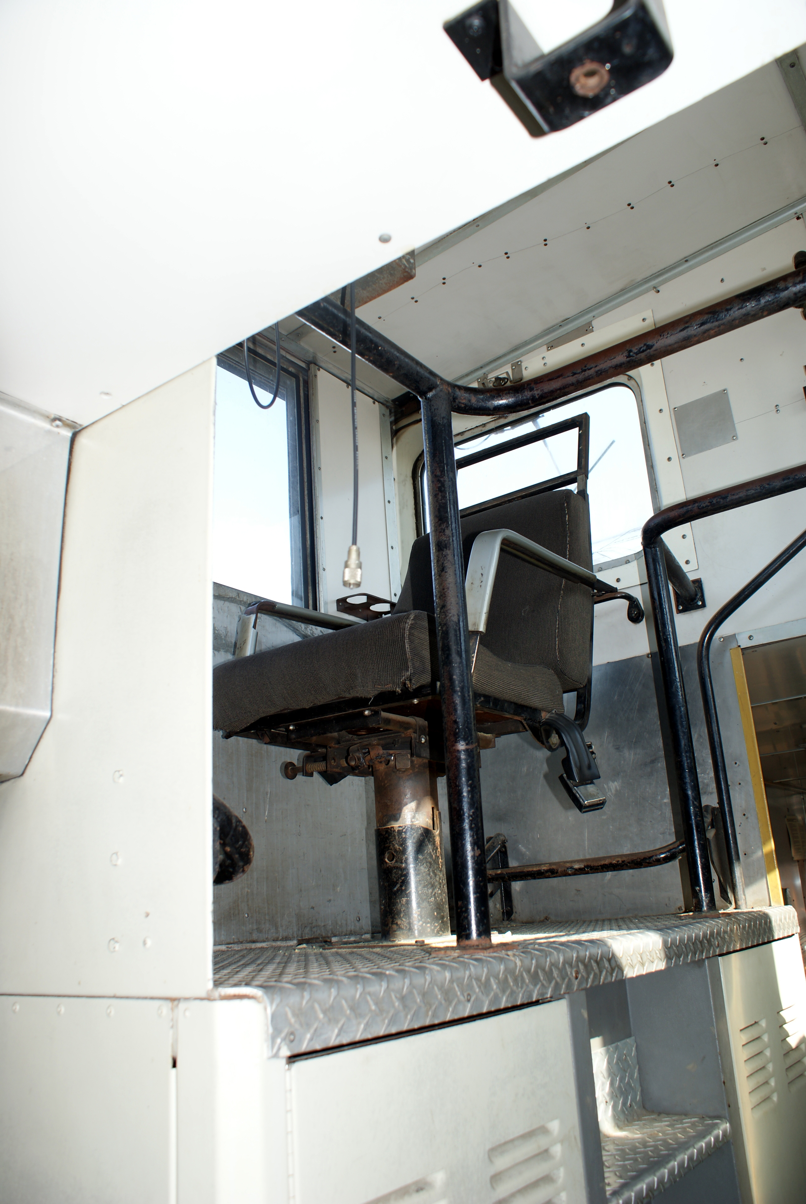 Interior of Caboose showing seating for the conductor in thecupola SAskatchewan Railway Museum